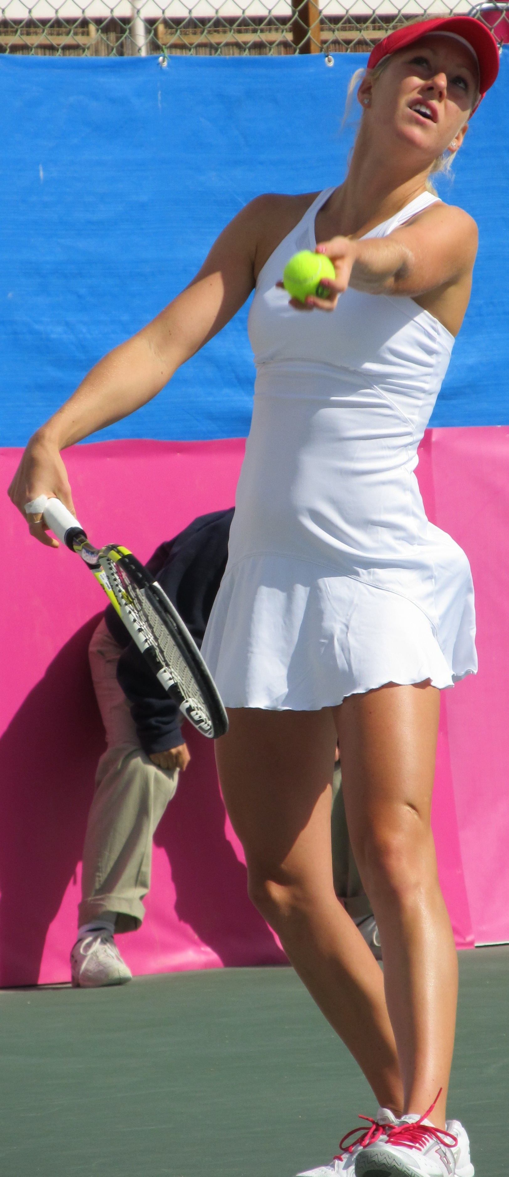 The tennis player Urszula Radwańska of Poland during her match against Claudine Schaul of Luxembourg in the 1st day of Fed Cup Group I 2012 Europe/ Africa in Eilat, Israel.